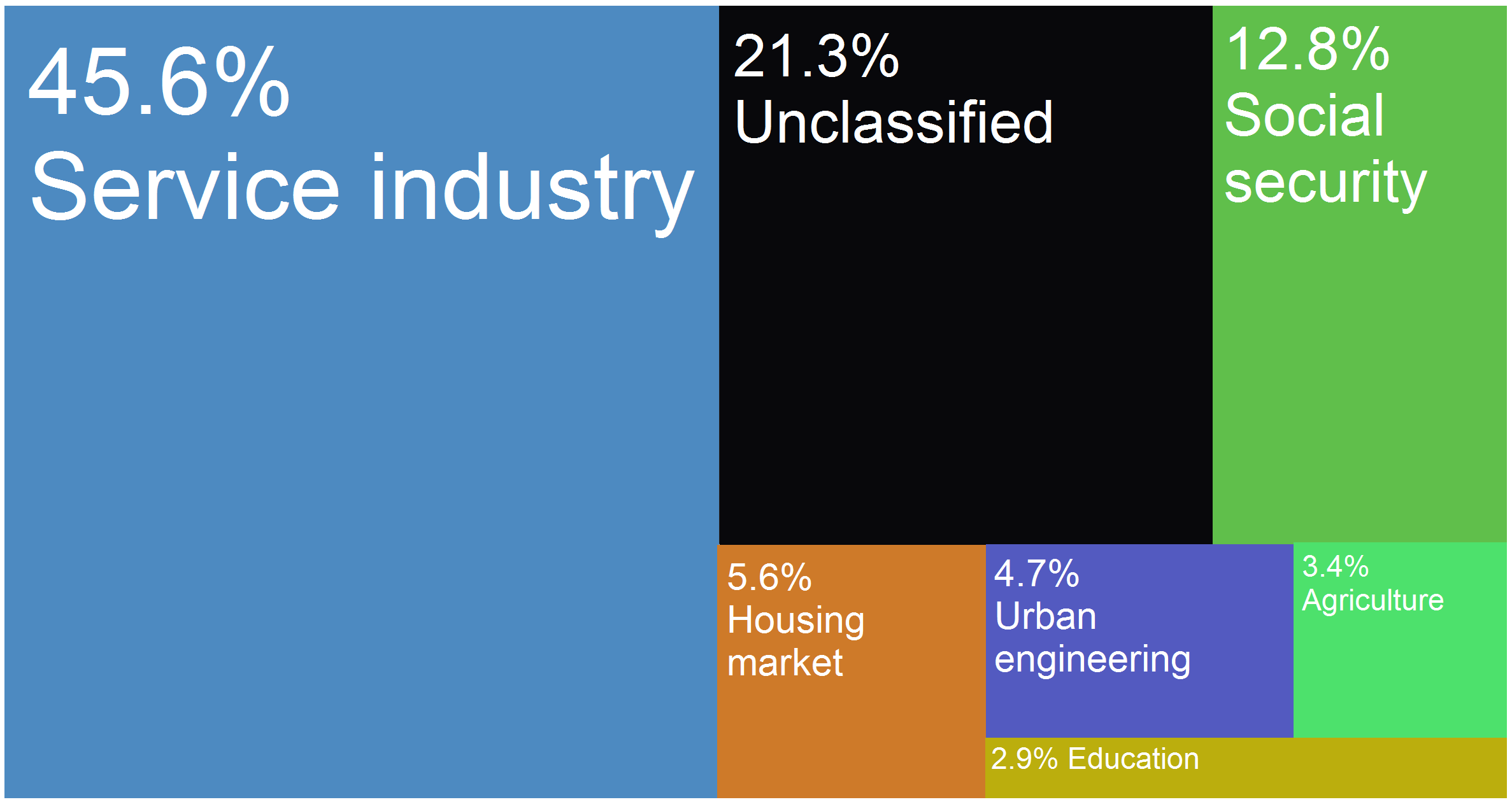 Diagram illustrating the city's budget sources.